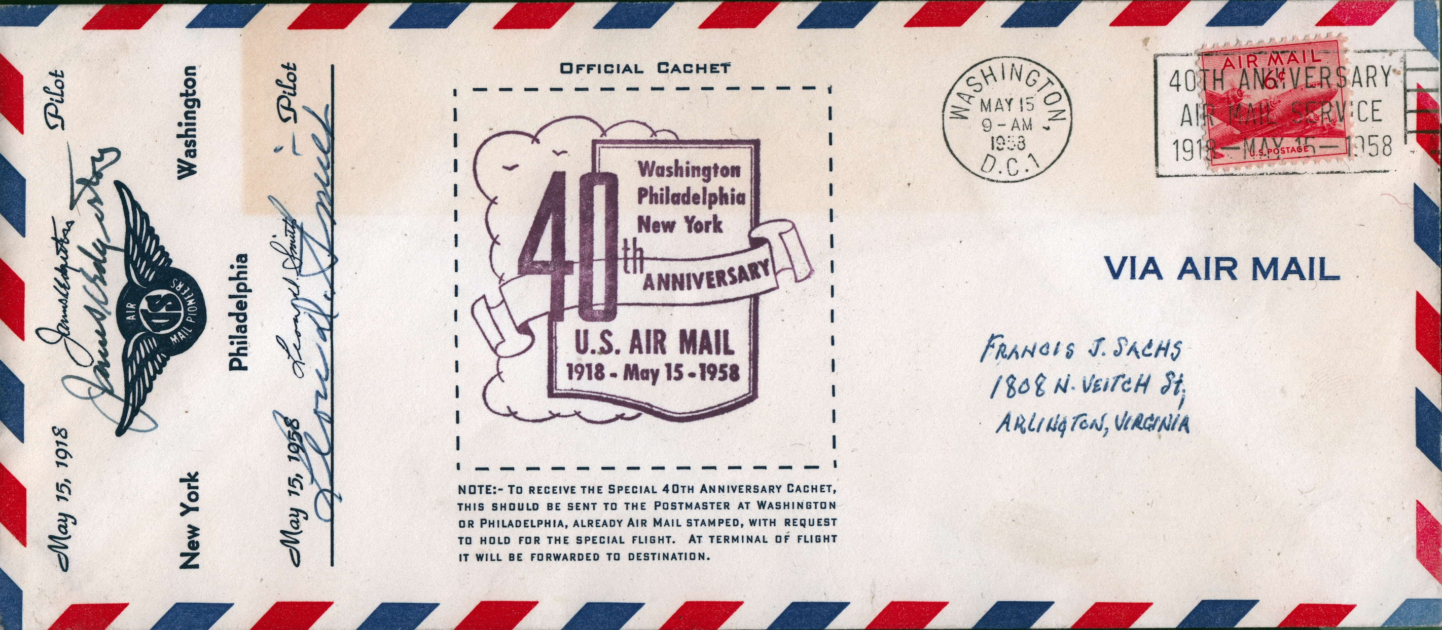 U.S. Air Mail 40th Anniversary flown cover carried over the original 1918 first scheduled Air Mail route (Washington-Philadelphia-New York) in a restored Curtis Jenney piloted by Leon D. "Windy" Smith, May 15, 1958. Cover autographed original 1918 Air Mail pilots James C. Edgerton and Leon D. Smith. Digital Image Cachet